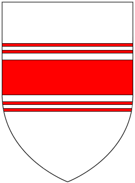 Arms of Badlesmere: Argent, a fess between two bars gemeles gules (Giles de Badlesmere, 2nd Baron Badlesmere (1314–1338), as shown for Guncelin de Badlesmere, on the Herald's Roll of Arms[1] also on The Camden Roll, D189 & St George's Roll, E473)